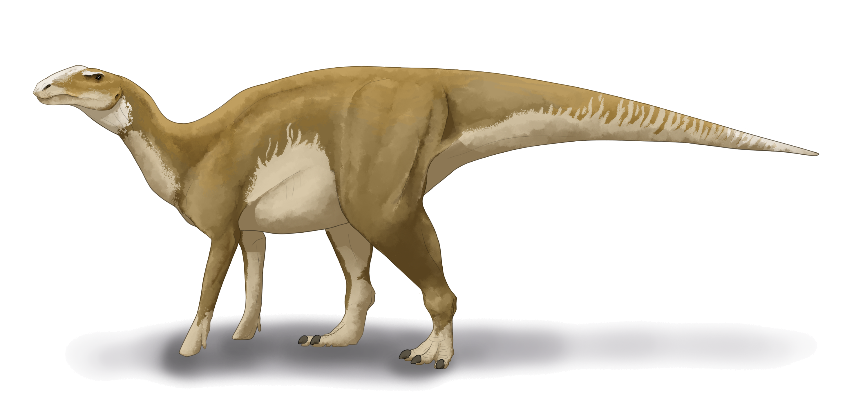 A restoration of Hadrosaurus foulkii based on various skeletal mounts and diagrams.